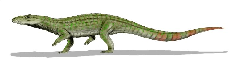 Sichuanosuchus huidongensis, a crocodylomorph from the Upper Jurassic of China, after Peng (1996), pencil drawing